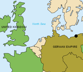 The approximate location of Pomerania, Germany during the FIrst World War. In modern-day Poland.